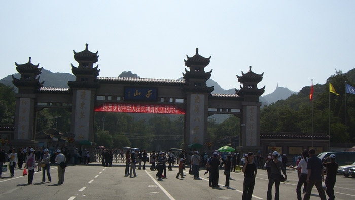 Qianshan National Park , near Anshan of Liaoning Province, northeastern China. (Entrance).